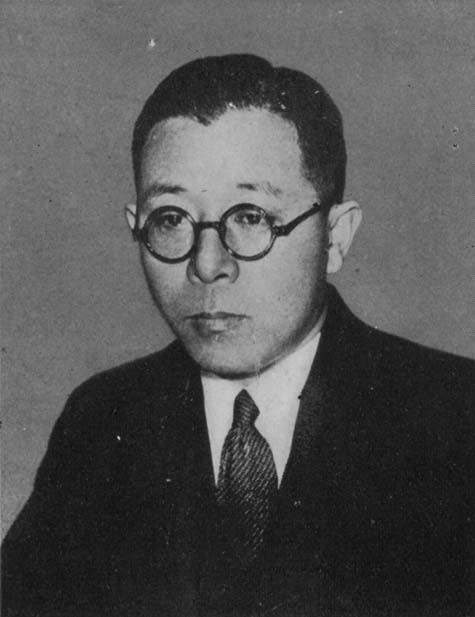 Shigeyuki Tanaka.